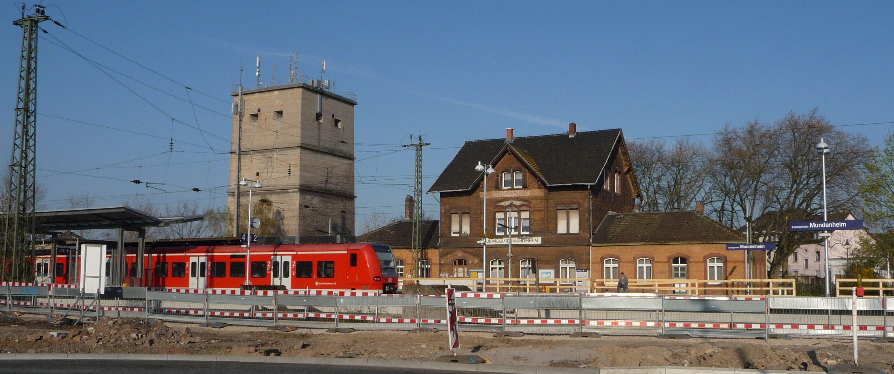 train station in Ludwigshafen, Germany